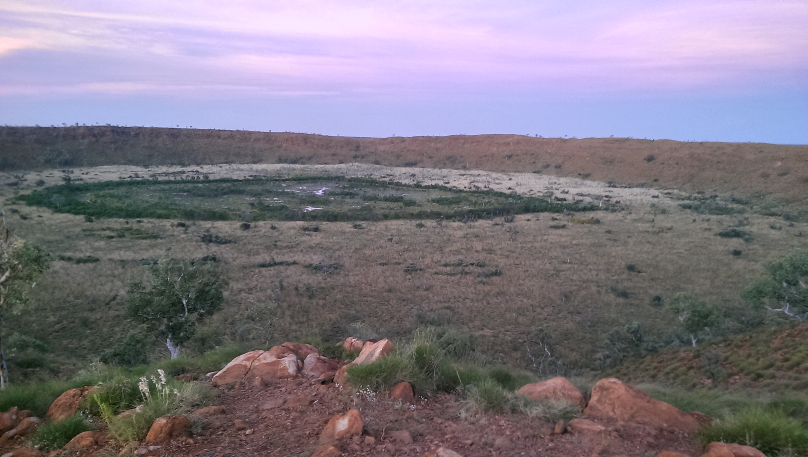 Wolfe Creek Crate at Sunset